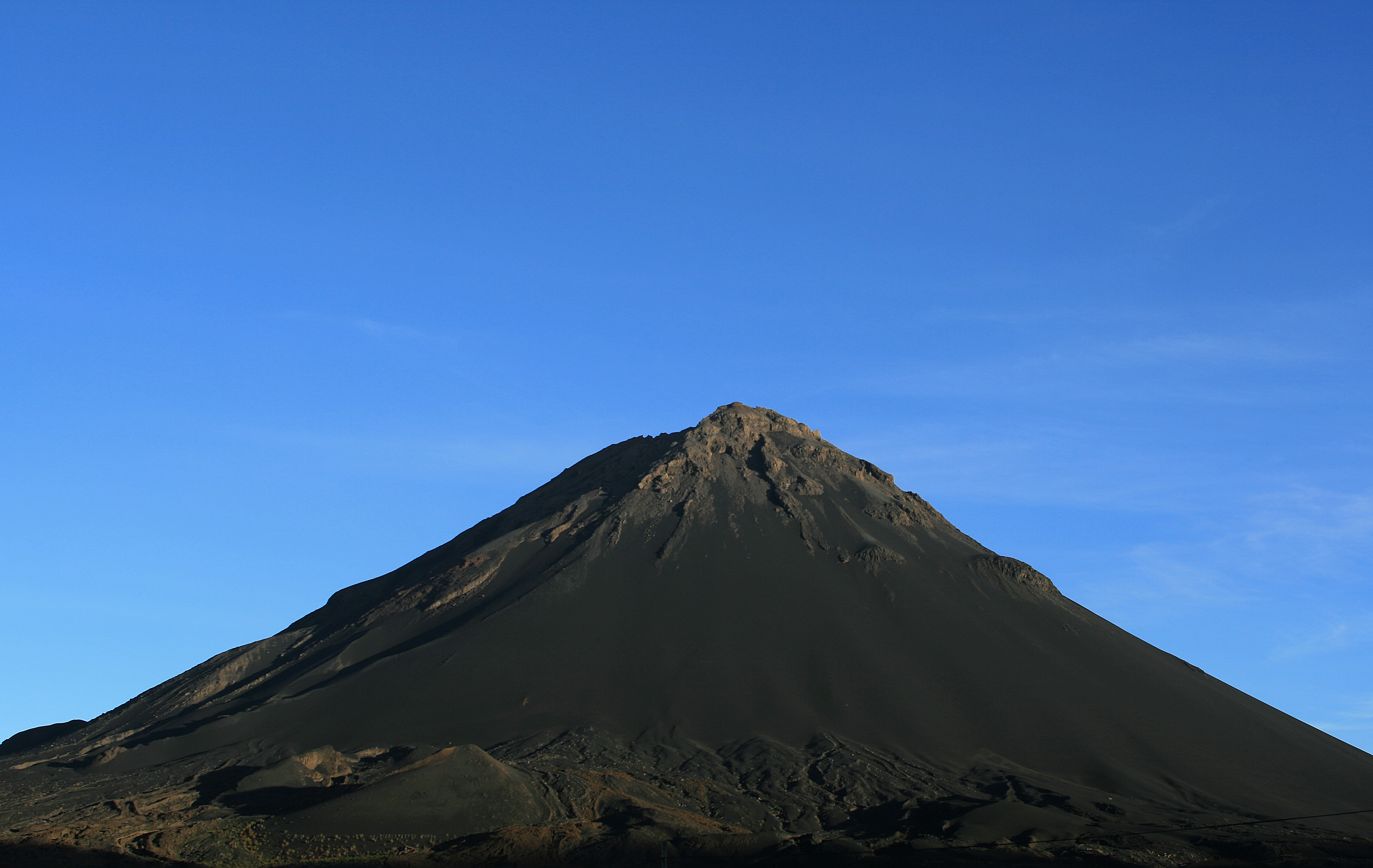 Peak of Mount Fogo, December 2007